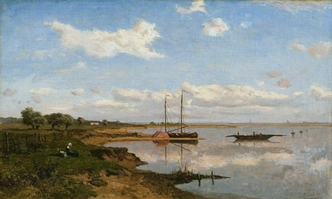 Het Drielse veer oil on canvas 28 x 46 cm 1863 signed b.r.